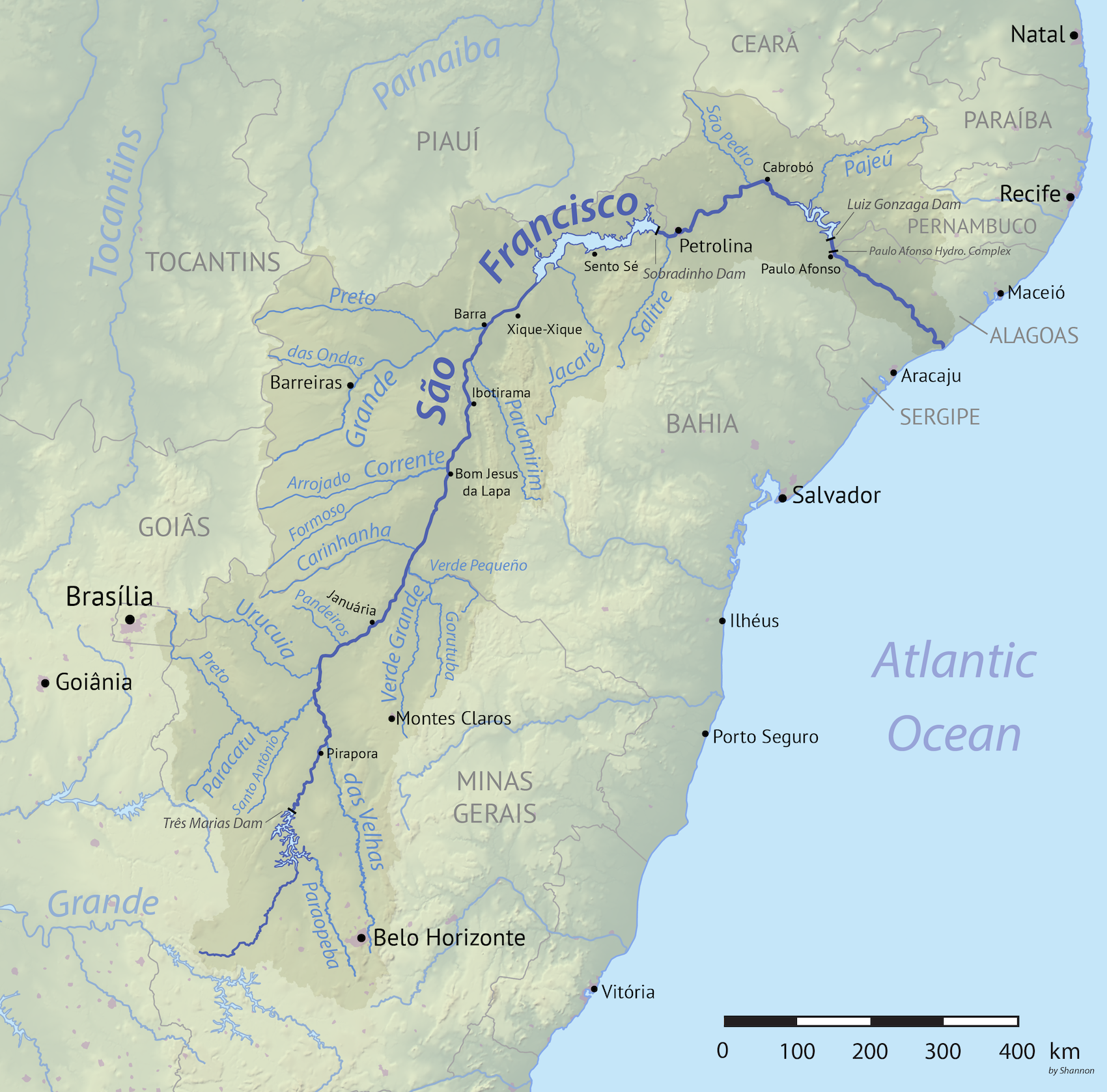 Map of the São Francisco river drainage basin in Brazil. Created using Natural Earth and USGS data.